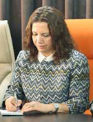 DTK, HDK, DBP, HDP administrators